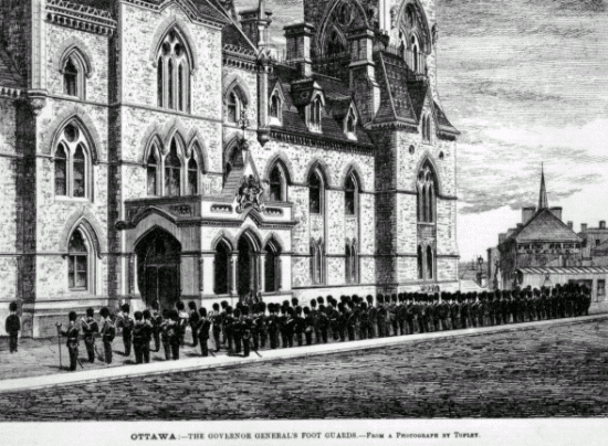 The Governor General's Foot Guards in Ottawa, Ontario, Canada on June 5th, 1875.